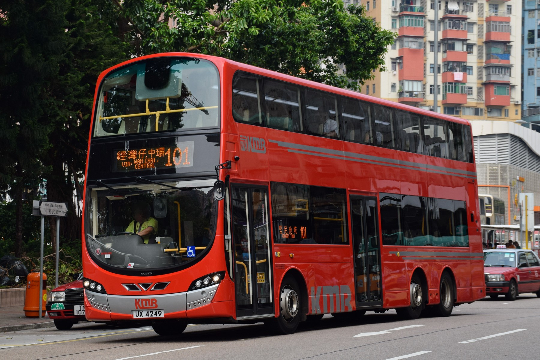 KMB Route 101 bus @ Yue Man Square (Volvo B9TL - Heartbeat of the City / AVBWU585 / UX4249)